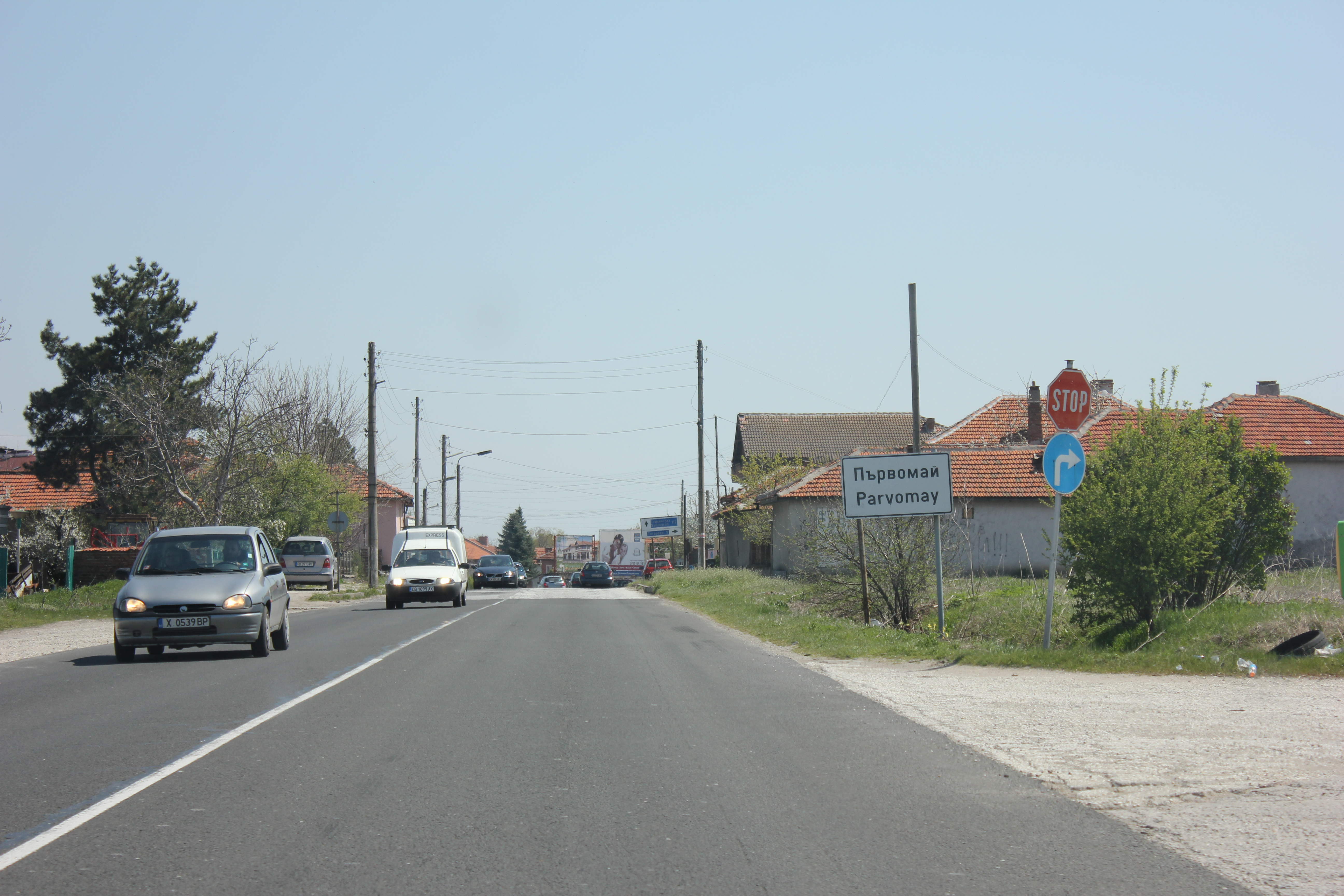 Entrance road to town Parvomay